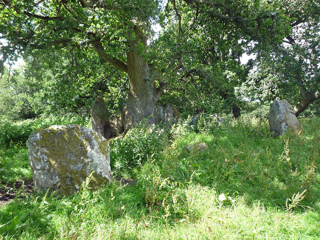 Balnaguie chambered neolithic cairn Not an easy cairn to reach despite being close to a minor road. The OS Map marks this as a Chambered Cairn (remains of).